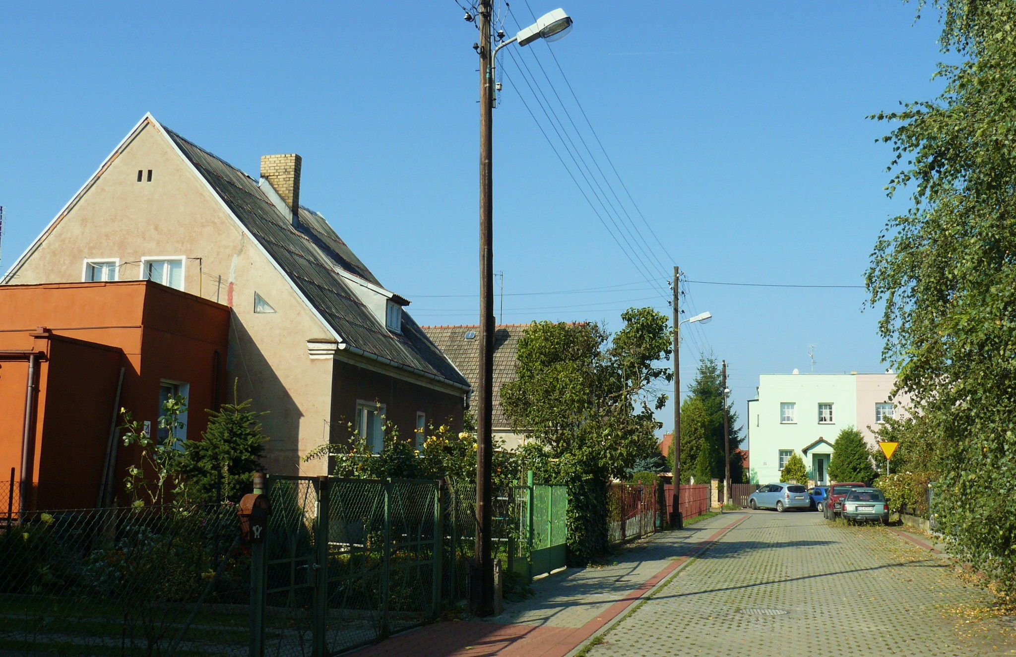 Poznan, Wegorzewska Street.